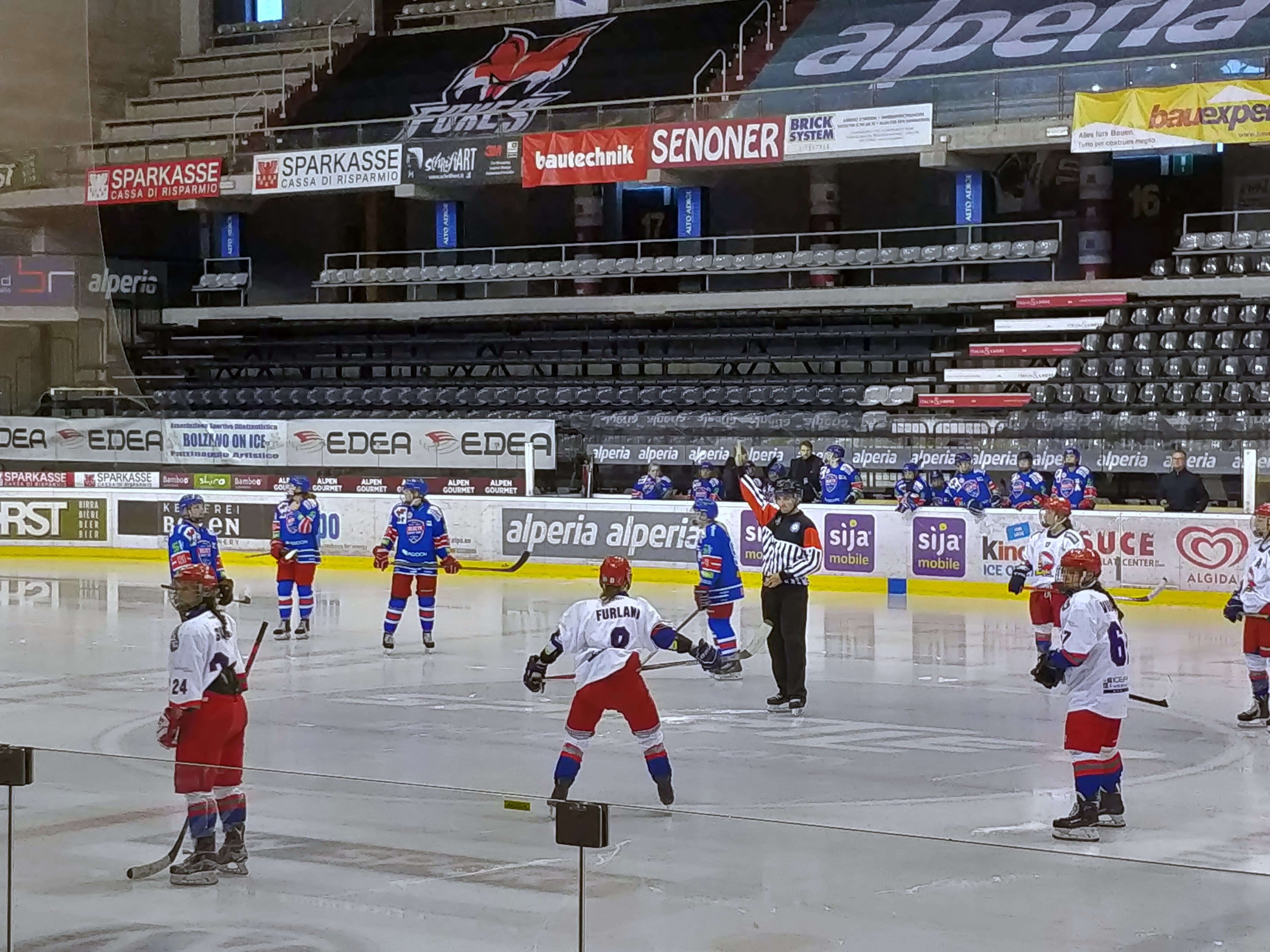 19 January 2020. EWHL 2019-2020 match between Hvidovre Select (DEN) and EV Bozen Eagles (ITA) in Bolzano